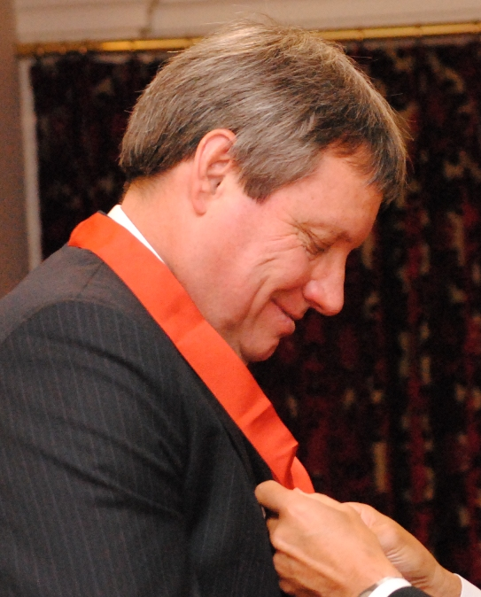 Martin Snedden, Wellington, CNZM investiture